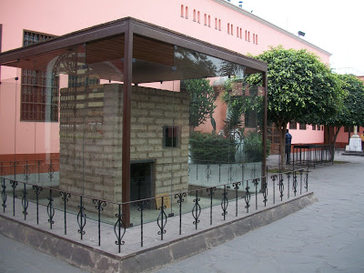 Hermitage of Saint Rose of Lima